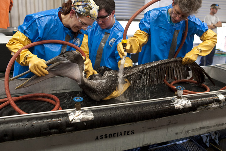 On Tuesday, May 4, 2010 the second oiled bird. a Brown Pelican is being washed Fort Jackson, LA rescue center. It was picked up in one of the remote islands in Southern Louisiana by the USFWS. The bird is in good condition.